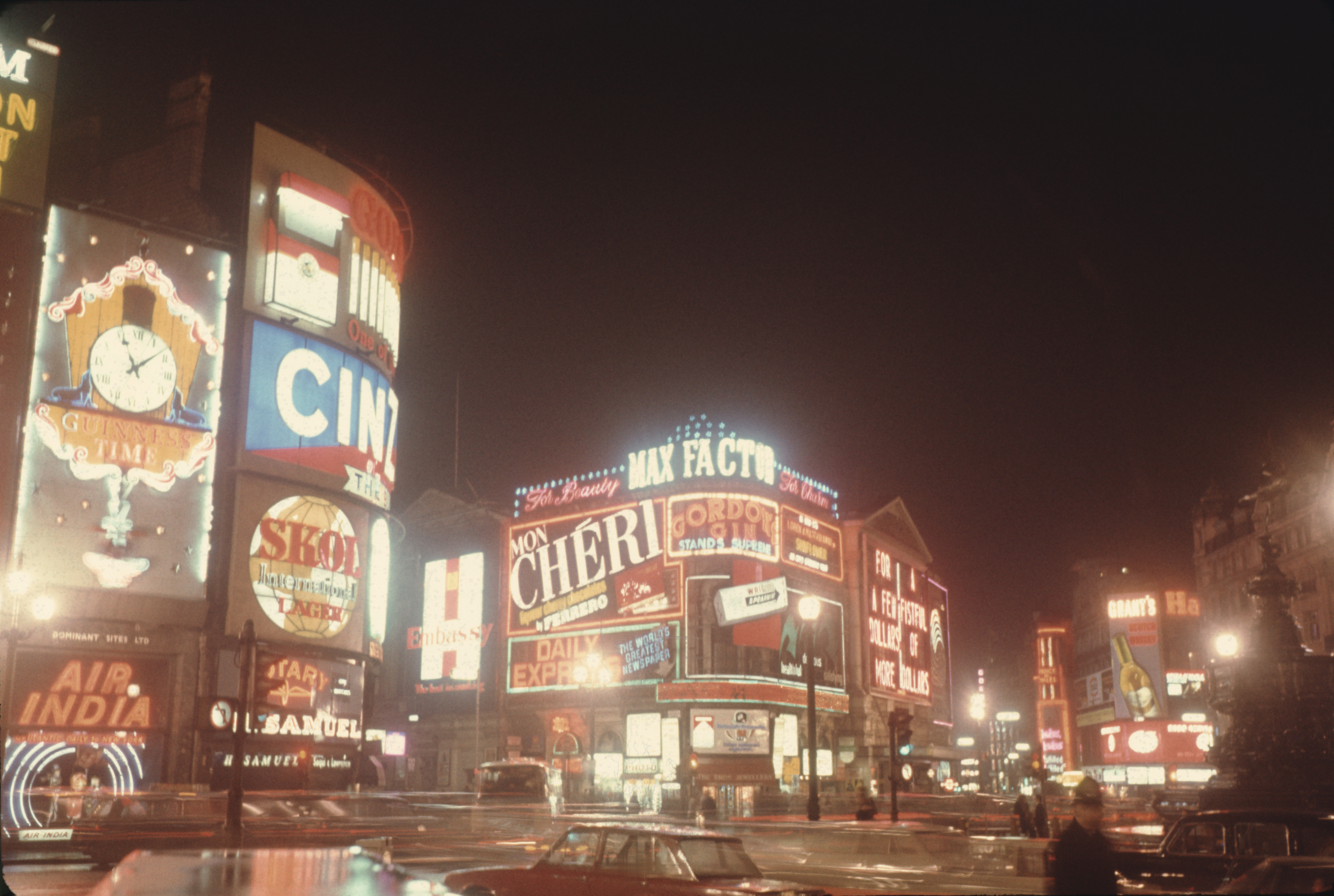 Photography by Victor Albert Grigas (1919-2017) Istanbul to London 3-70 March 1970 00387 (47702143251).jpg